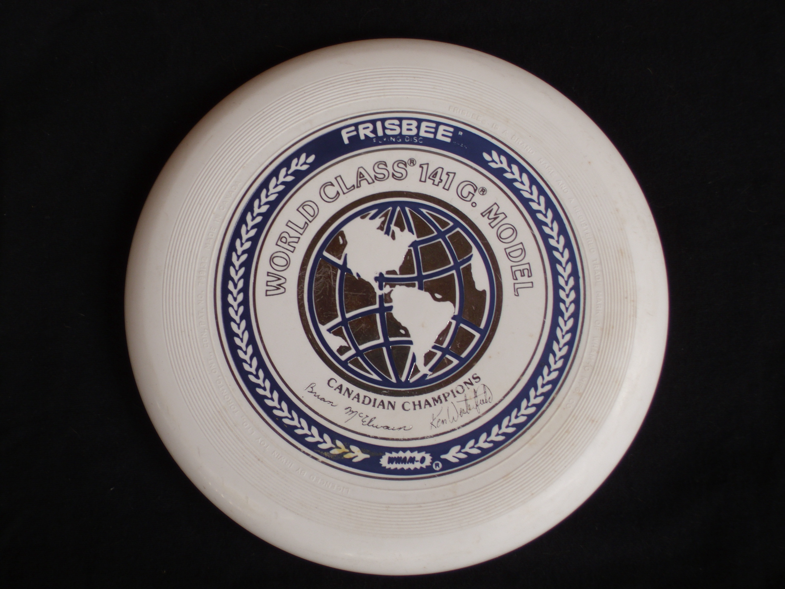 Ken Westerfield and Brian McElwain signature endorsed the World Class Frisbee